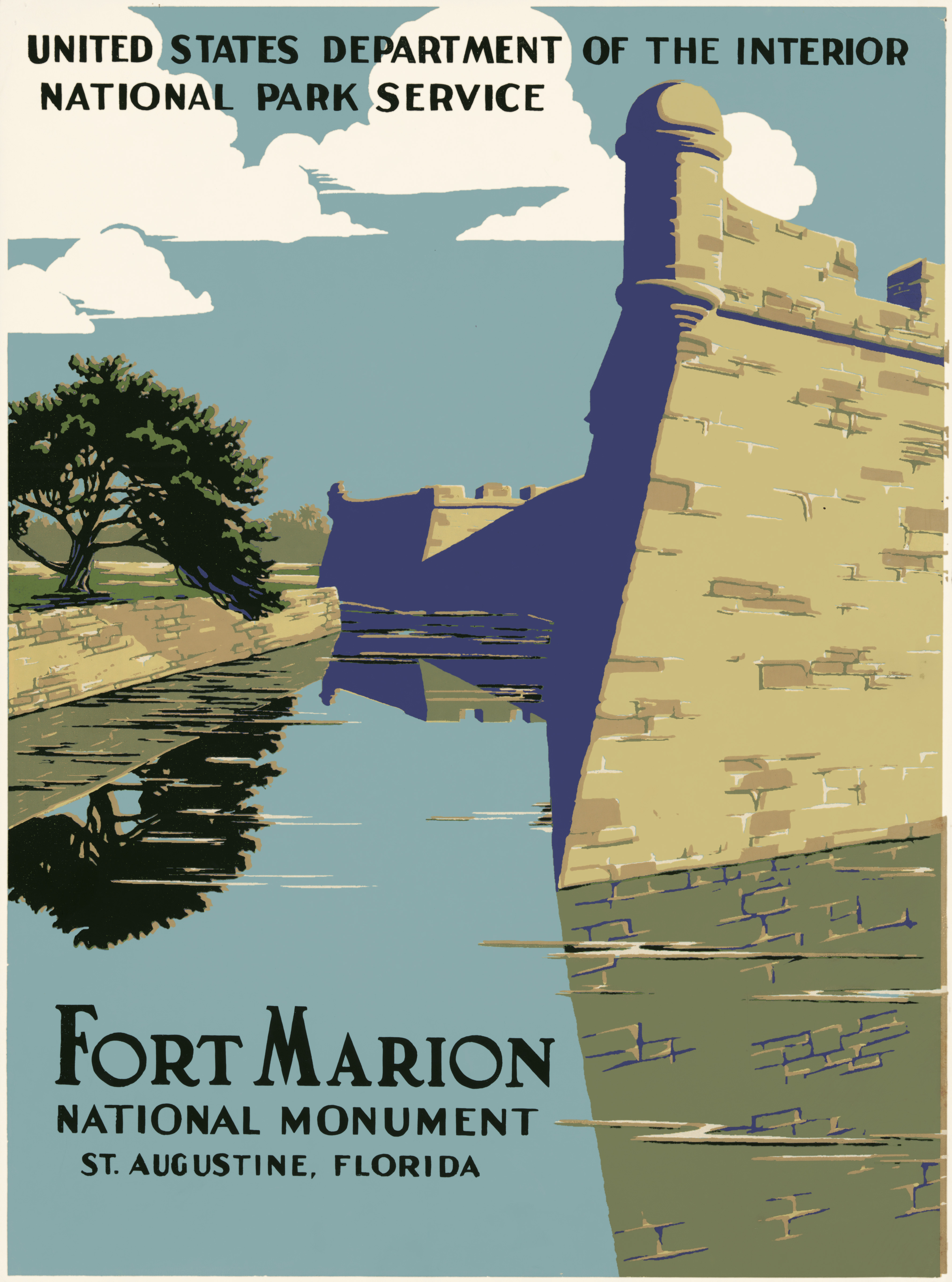 Poster for Fort Marion National Monument (now Castillo de San Marcos), St. Augustine, Florida, USA